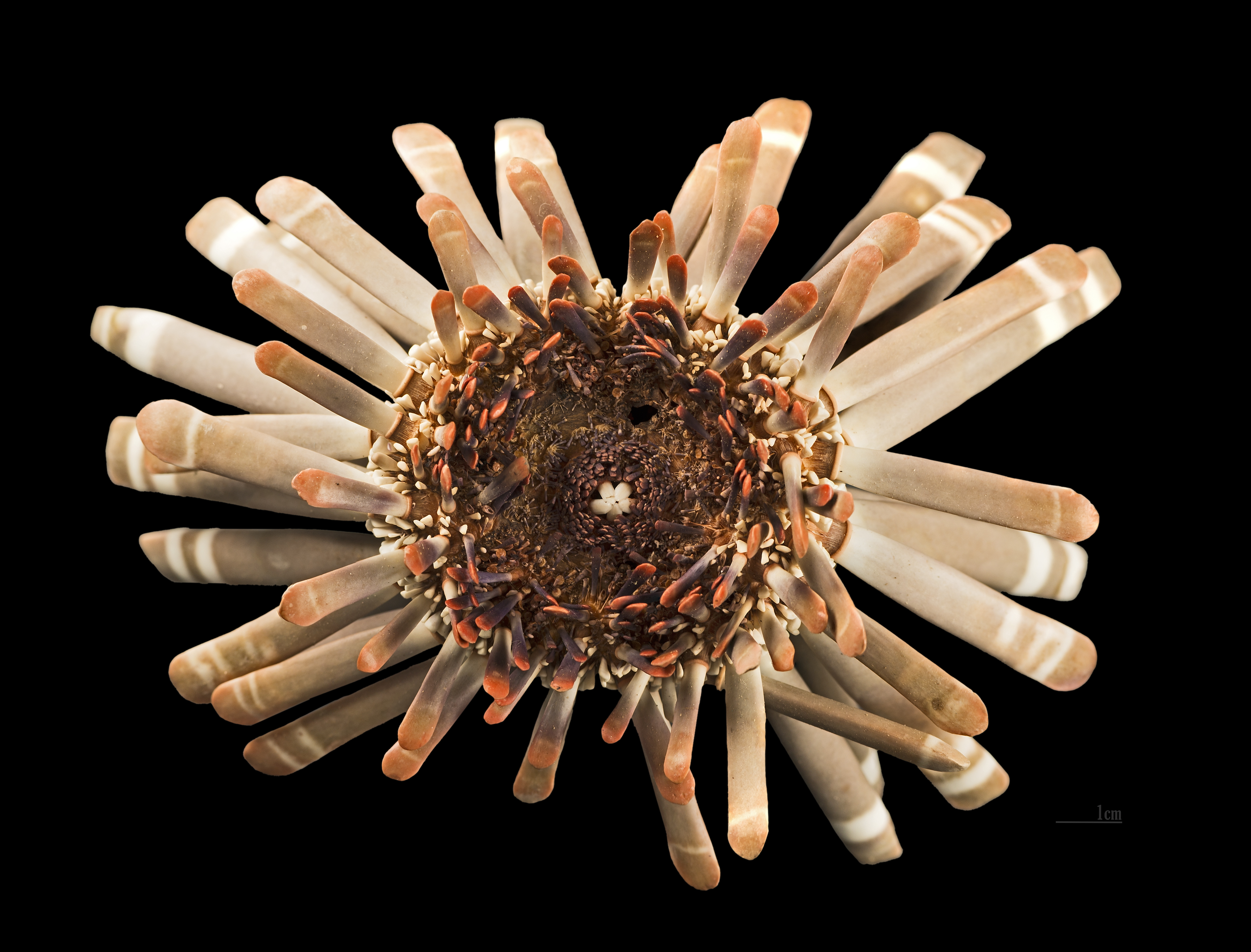 Slate pencil urchin, underside.